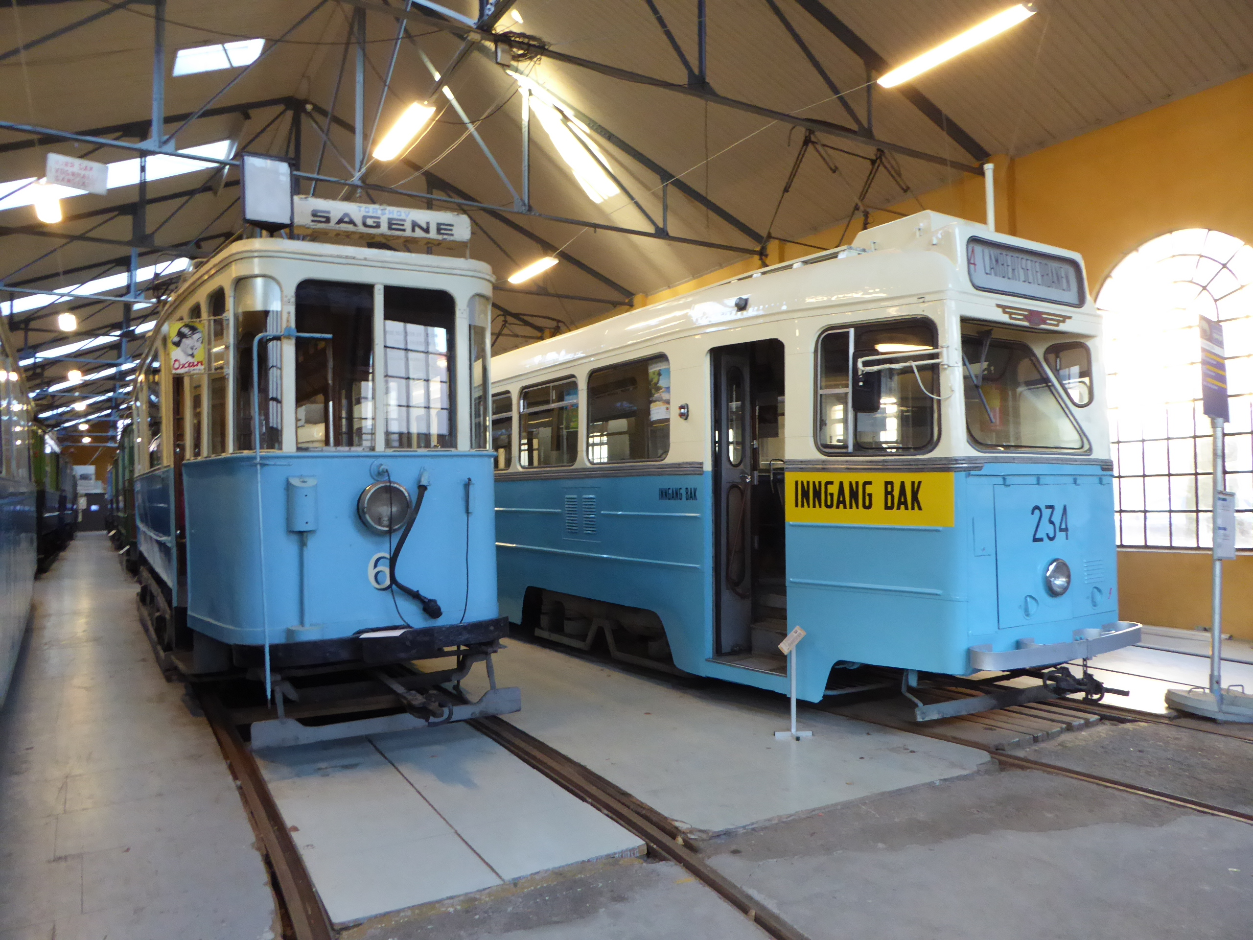 The trams OS 6 of Oslo Sporveier from 1918 and OS 234 of Oslo Sporveier from 1957 at Sporveismuseet in Oslo.